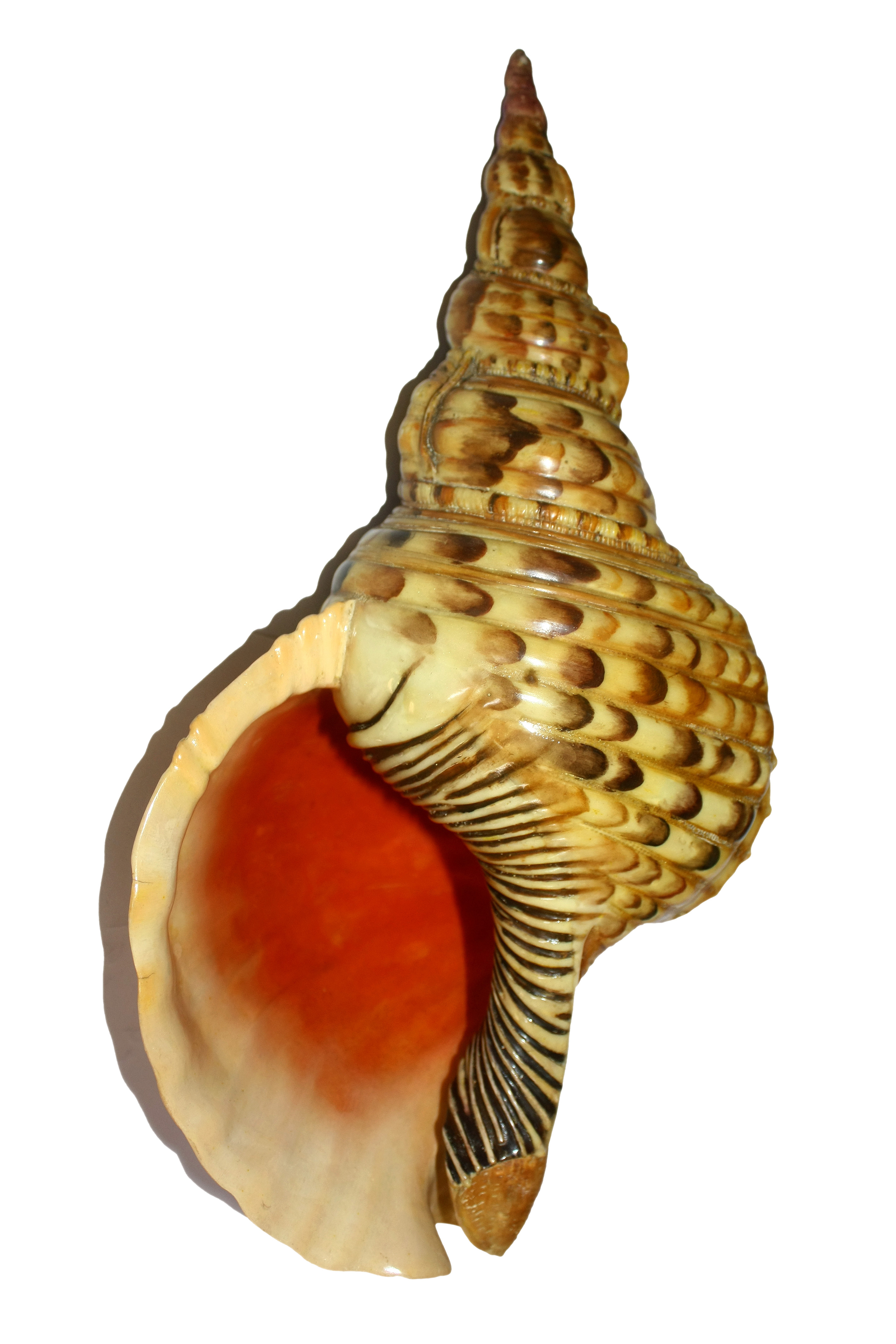 An artificial rightwards/right-handed (Dakshinavarti Shankh / Valampuri) Triton (Charonia tritonis) conch. It is 13 inch plastic conch.